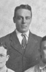 Ice hockey coach Talbot Hunter of the 1909–10 Cornell University Big Red team.